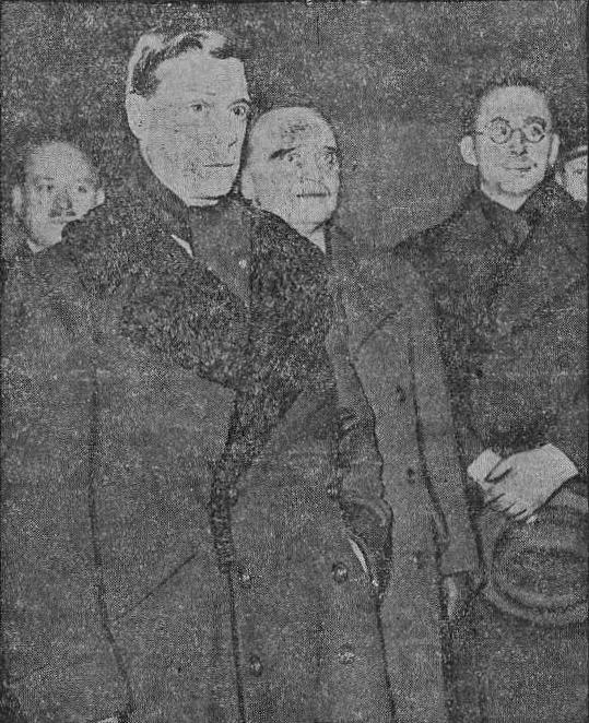 From right: Eugeniusz Hinterhoff (Polish Correspondent, PAT), dr Michael Skubl (Director of Bundespolizei in Wien) and ex-king Edward VIII Windsor, after leaving of Westbahnhof in Vienna (December 1936).